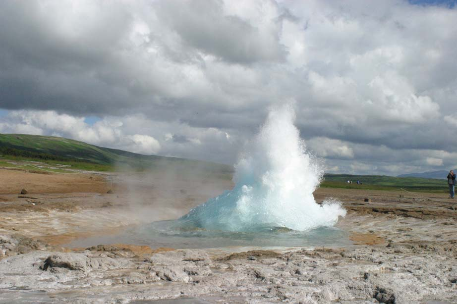 Geyser exploding. 3. Surface tension is broken